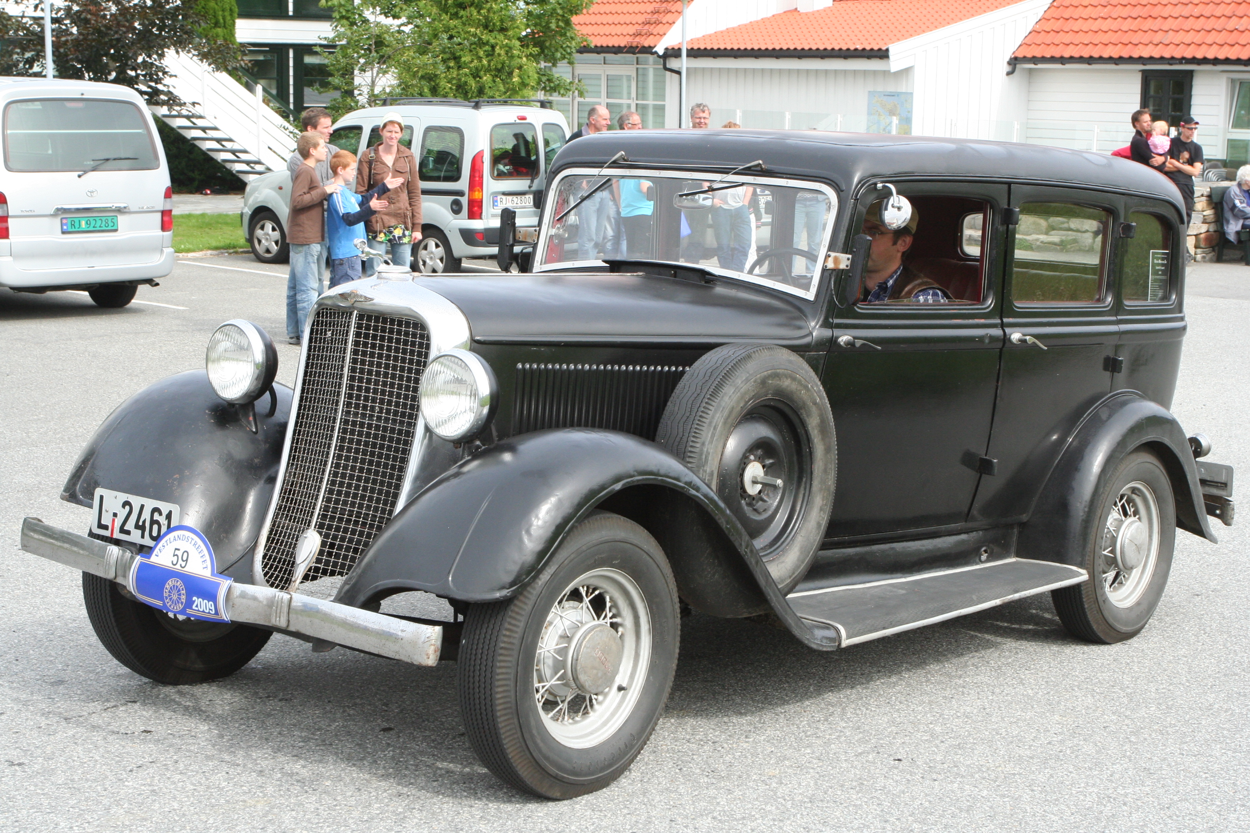 Captured at a Veteran-Car meeting on August 1, 2009 in Utstein, Norway. @ was the owner at the time.